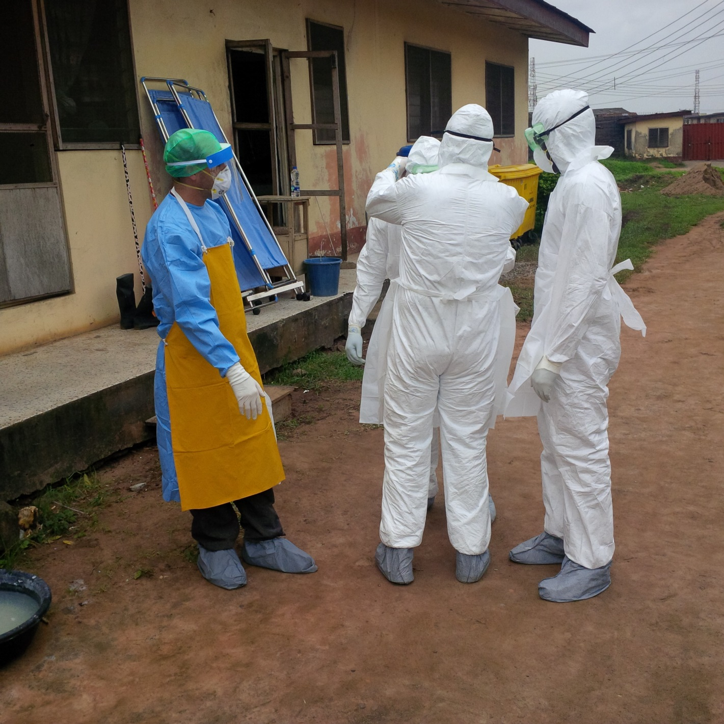 Nigerian physicians being trained by the World Health Organization (WHO) on how to put on and remove personal protective equipment (PPE) to treat Ebola patients. For more information on Ebola and what CDC is doing, please visit